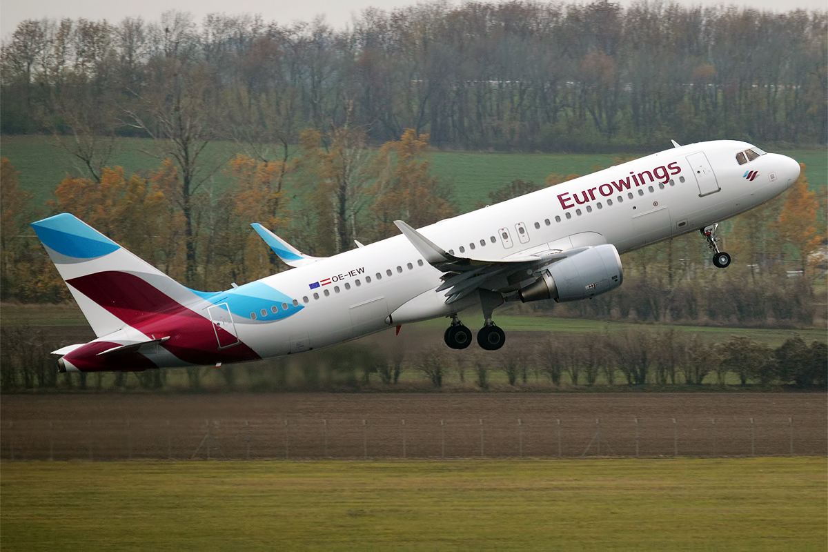 Eurowings Europe, OE-IEW, Airbus A320-214